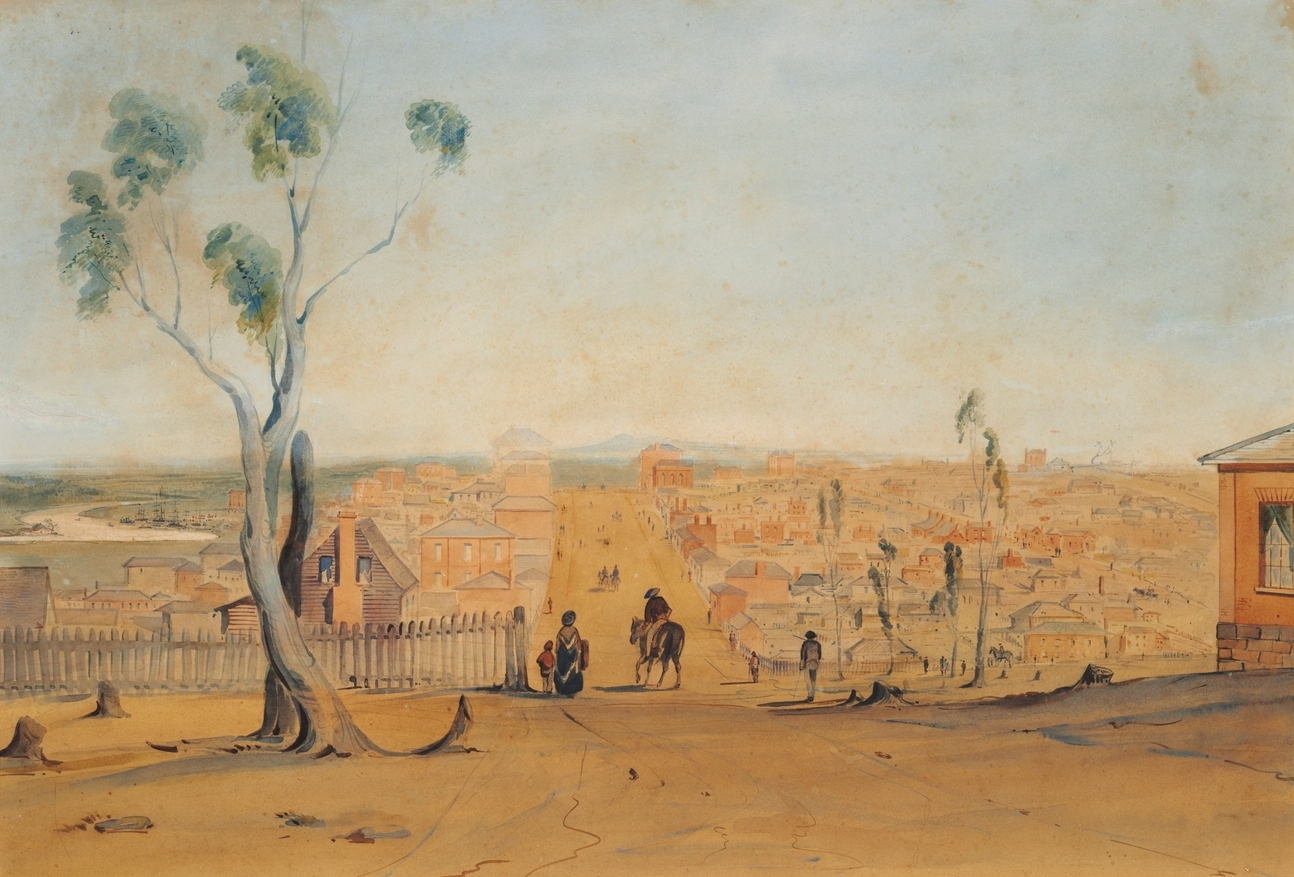 Melbourne from eastern end of Collins Street, watercolour, 21 7/8 in. x 32 in